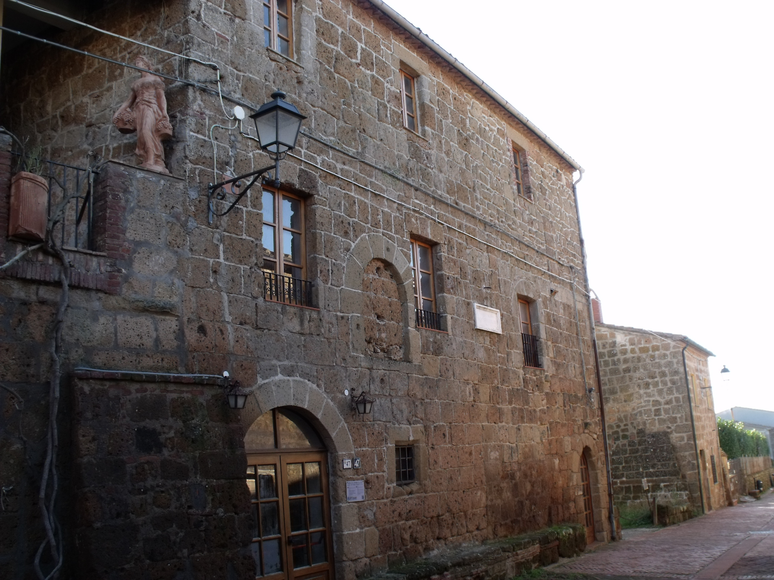 presumed House of birth of Gregorius VII. in Sovana, hamlet of Sorano, Province of Grosseto, Tuscany, Italy